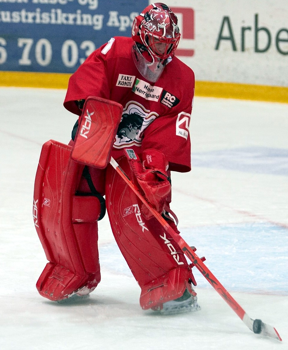 Mr. Simon Nielsen in action.